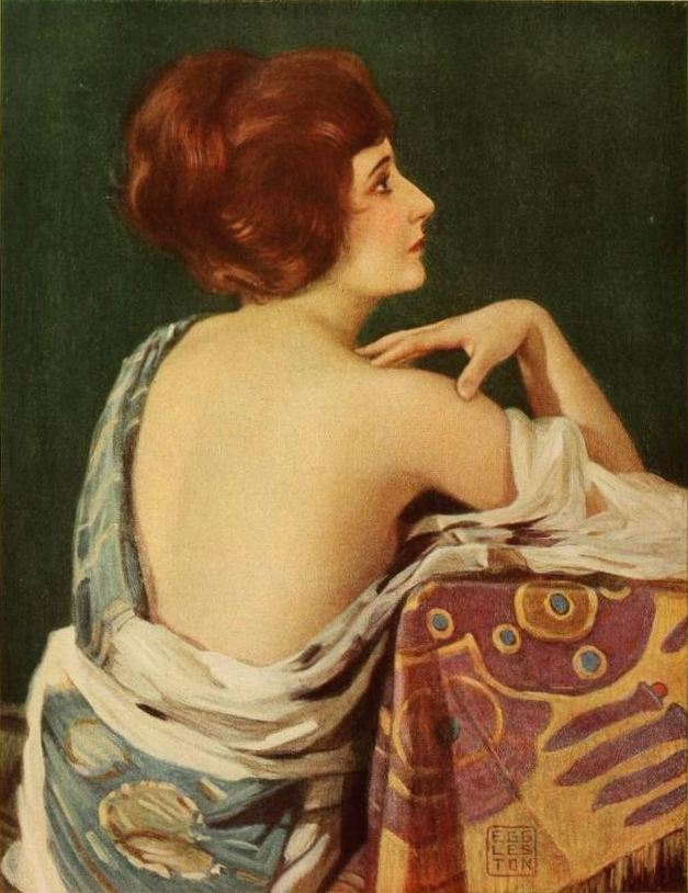 American actress Ruth Stonehouse, on page 8 of the December 1922 Shadowland. Painted by Edward Mason Eggleston. From a photograph by Edwin Bower Hesser